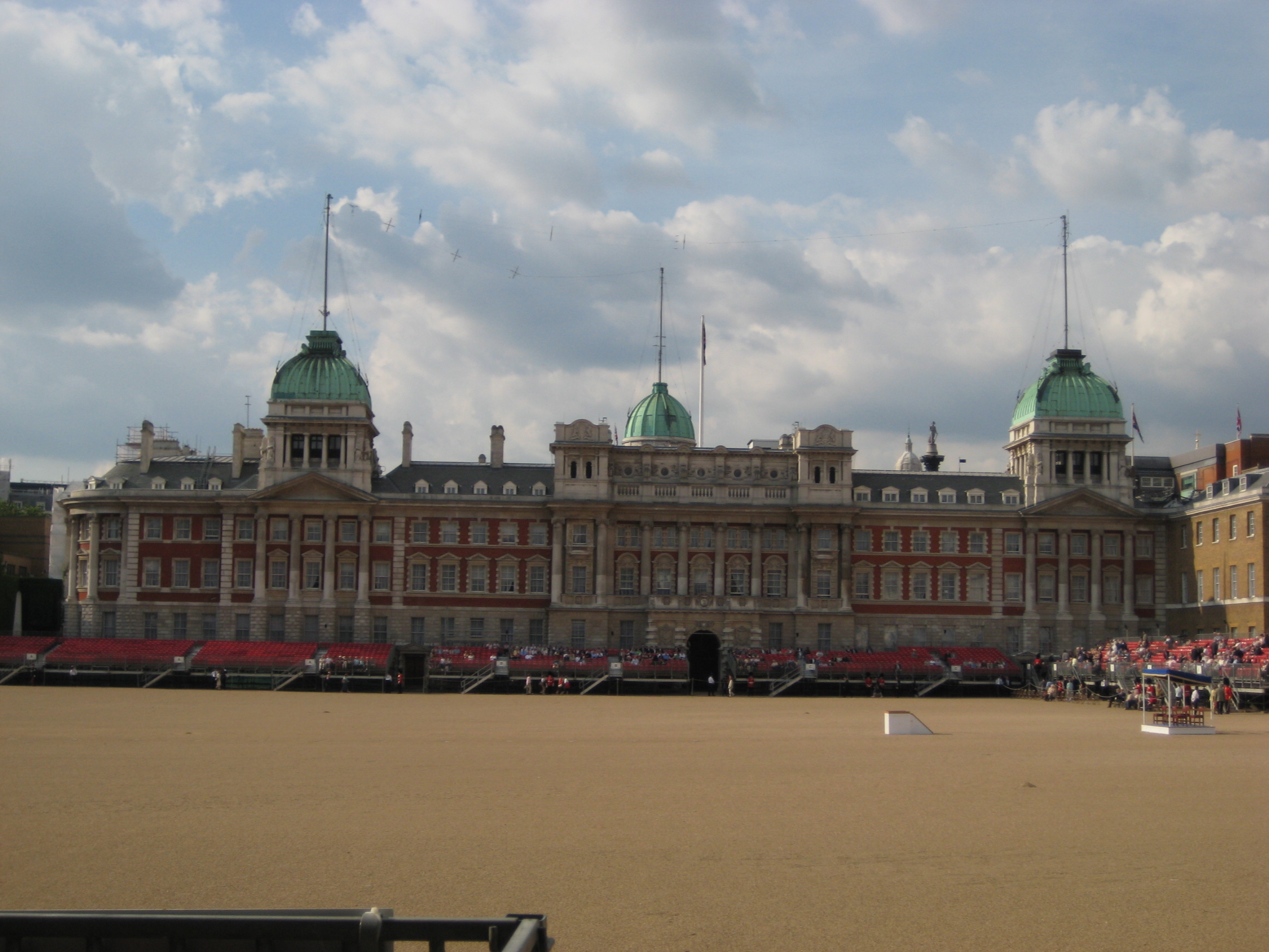 Old Admiralty Building from Horseguards Parade